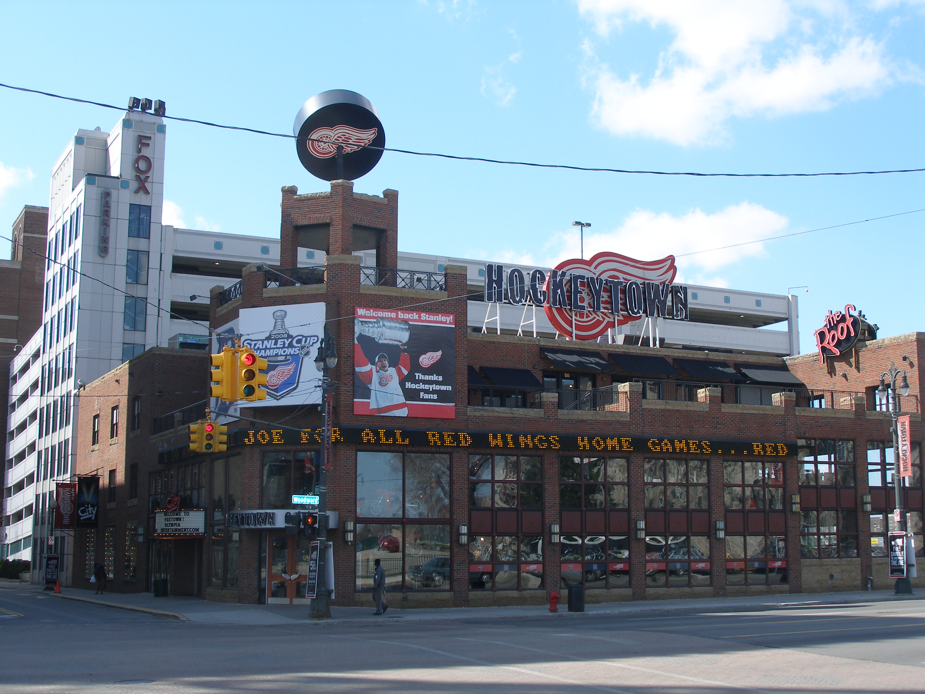 Hockeytown Cafe